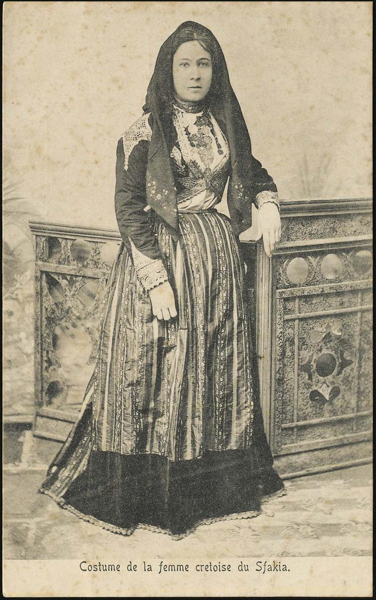 Female Cretan of Sphakia in costume.